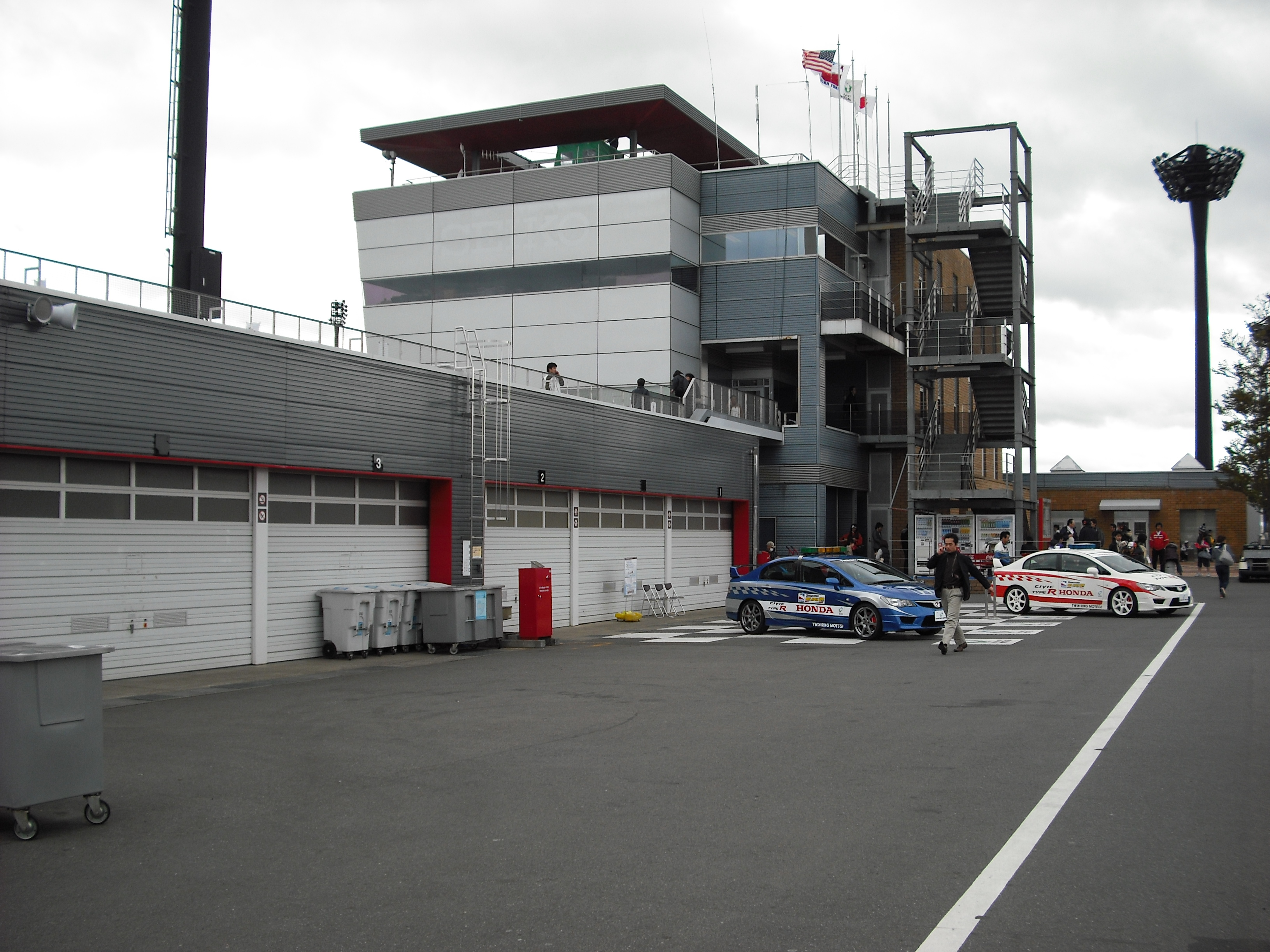 Motegi tower from paddock